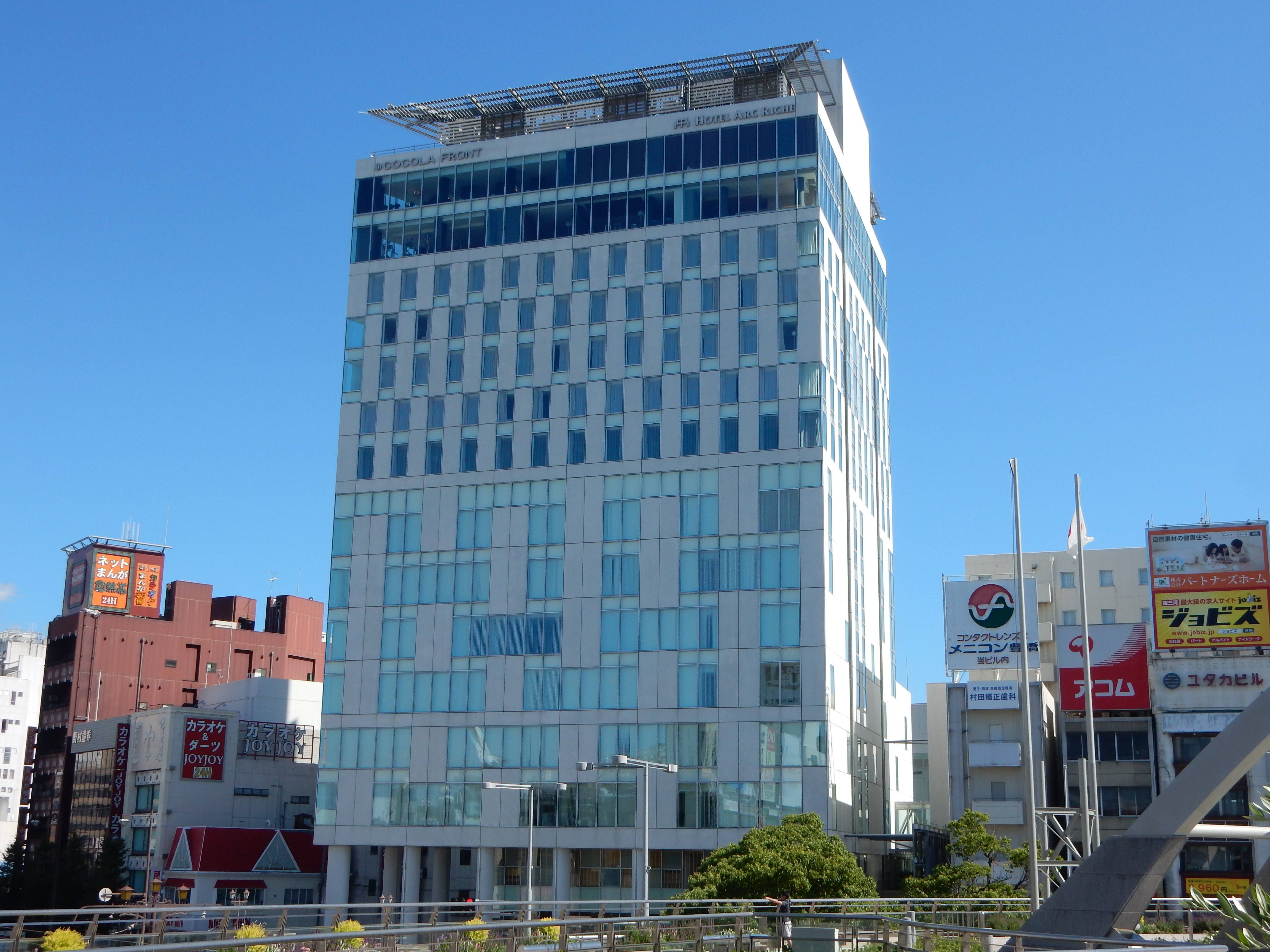 Sala Tower (サーラタワー), located at 1-55 Ekimae-Odori, Toyohashi, Aichi, Japan